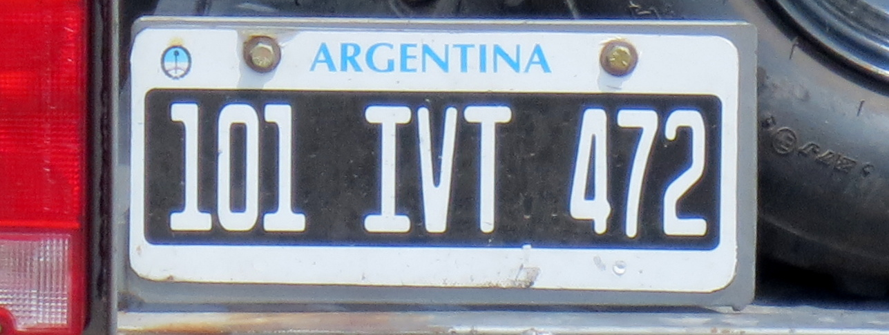 Argentinian registration plate: trailer